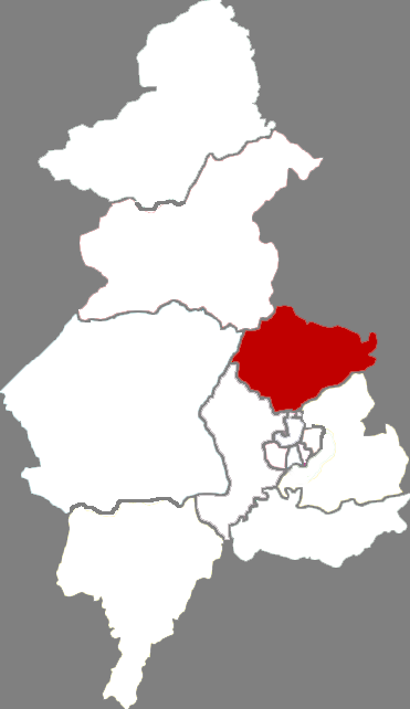 Location of Shenbei district in Shenyang City, China